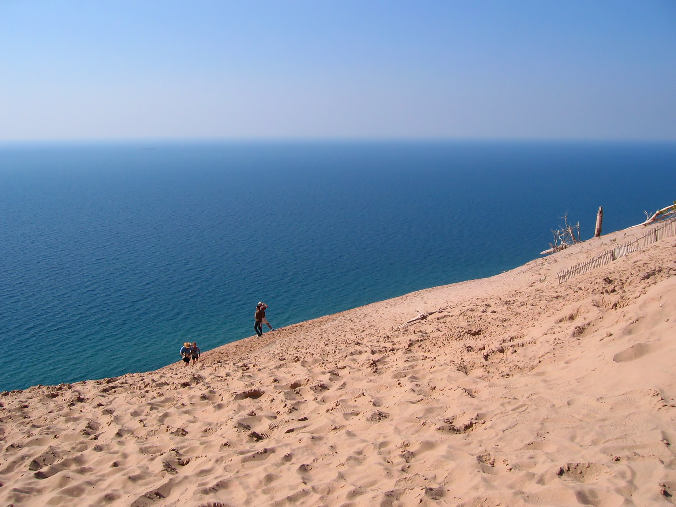 View from near the top of Sleeping Bear Dune, Sleeping Bear Dunes National Lakeshore, Michigan, USA